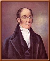 Painting of Timothy Hackworth.